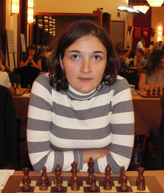 Nana Dzagnidze (Georgia), Heraklion 2007